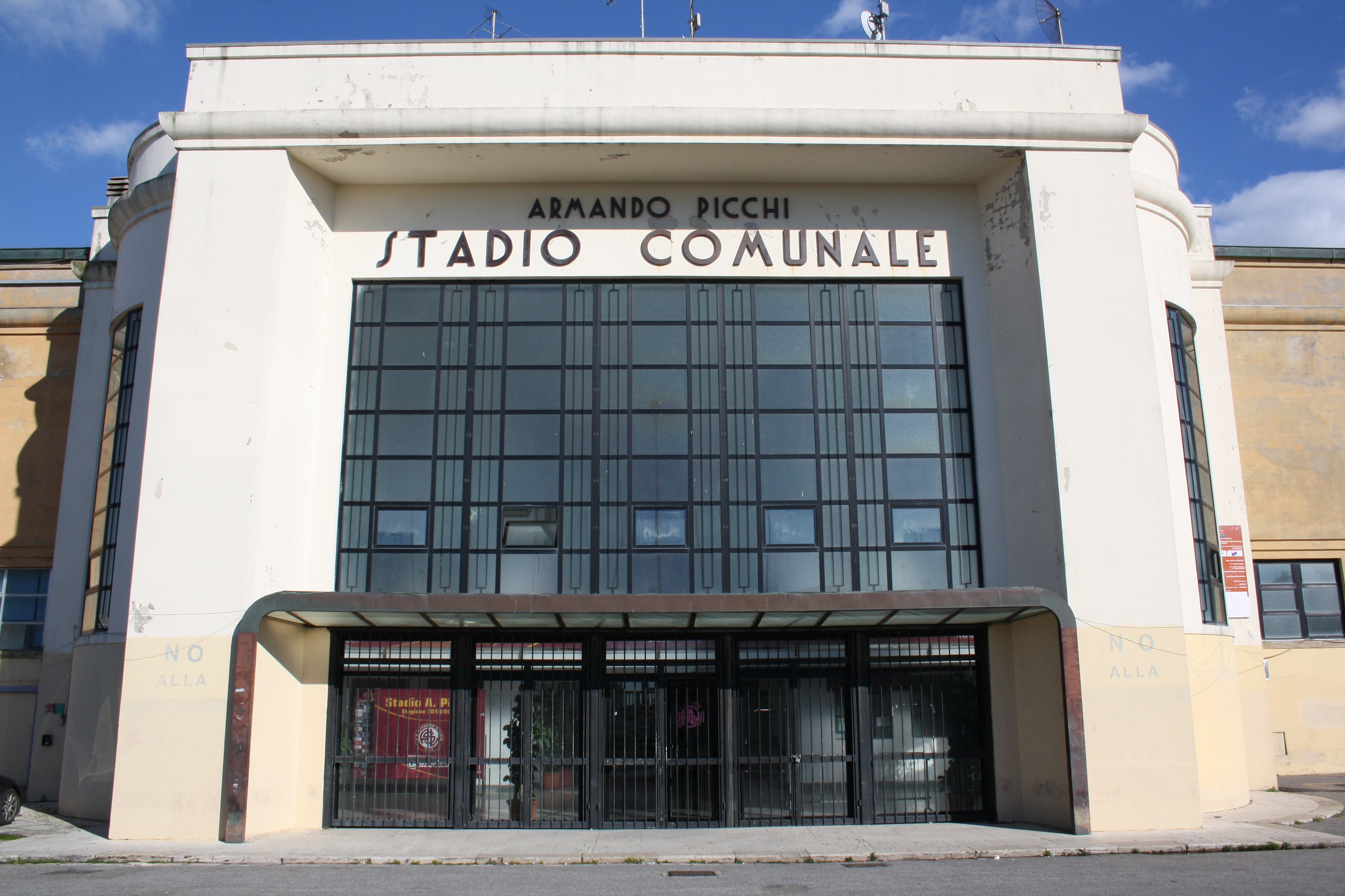 Livorno, Stadio Armando Picchi main entrance.